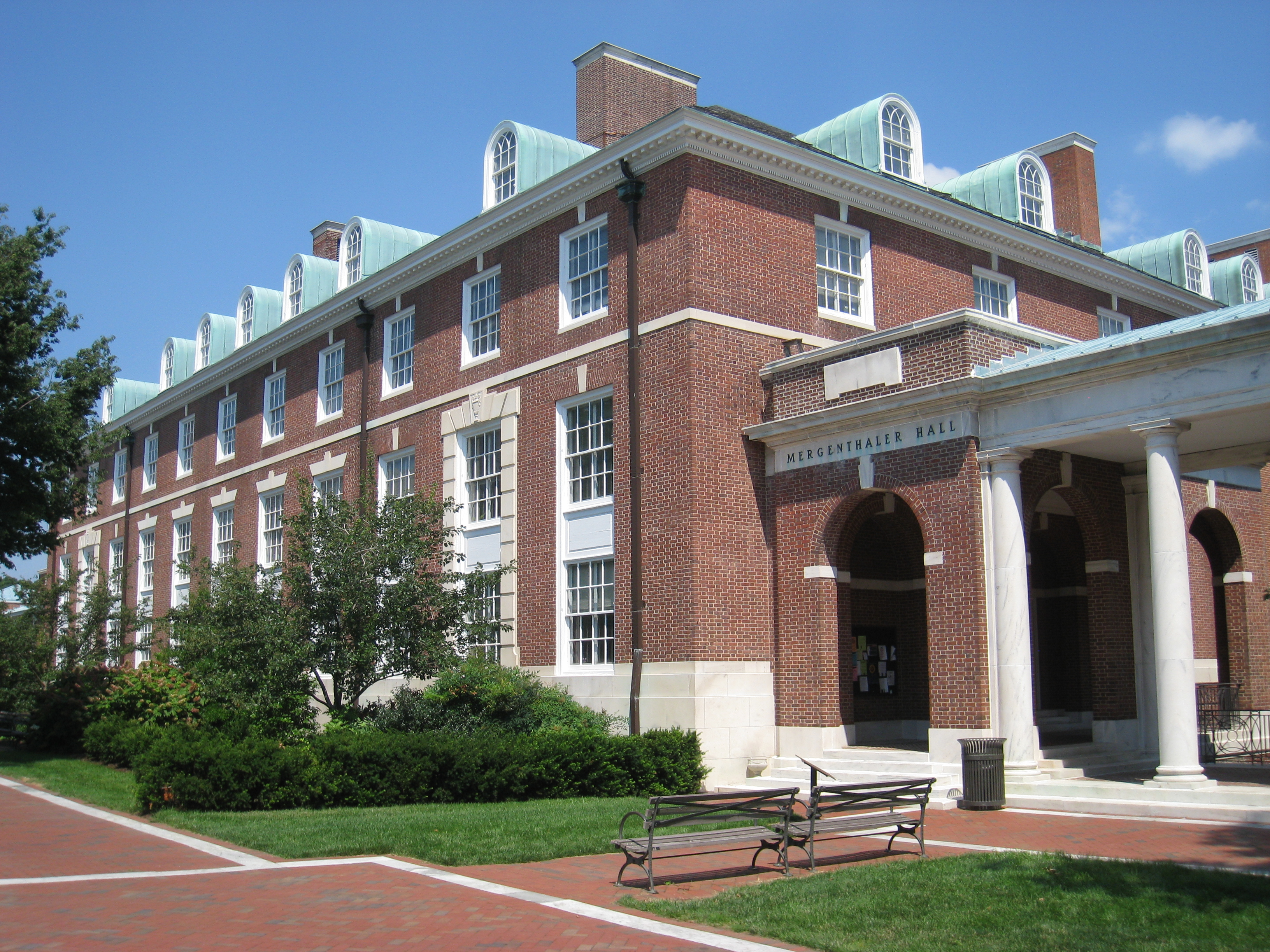 Mergenthaler Hall, Johns Hopkins University, Baltimore, Maryland, USA.